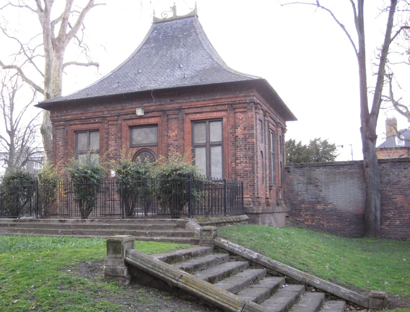 Garden House to North West of Charlton House (now Public Lavatory)